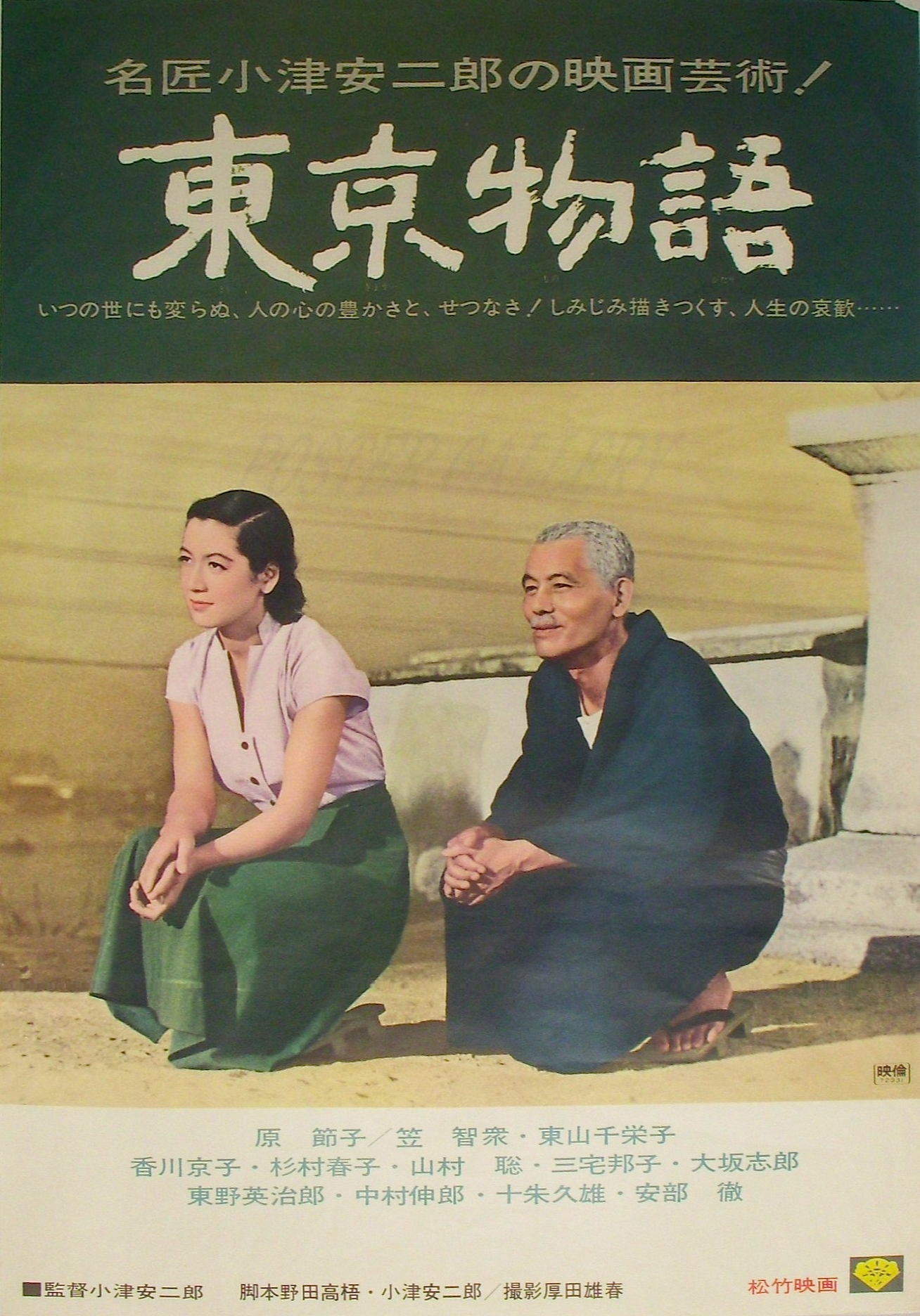 Movie poster for 1953 Japanese movie Tokyo Story (東京物語, Tokyo monogatari).